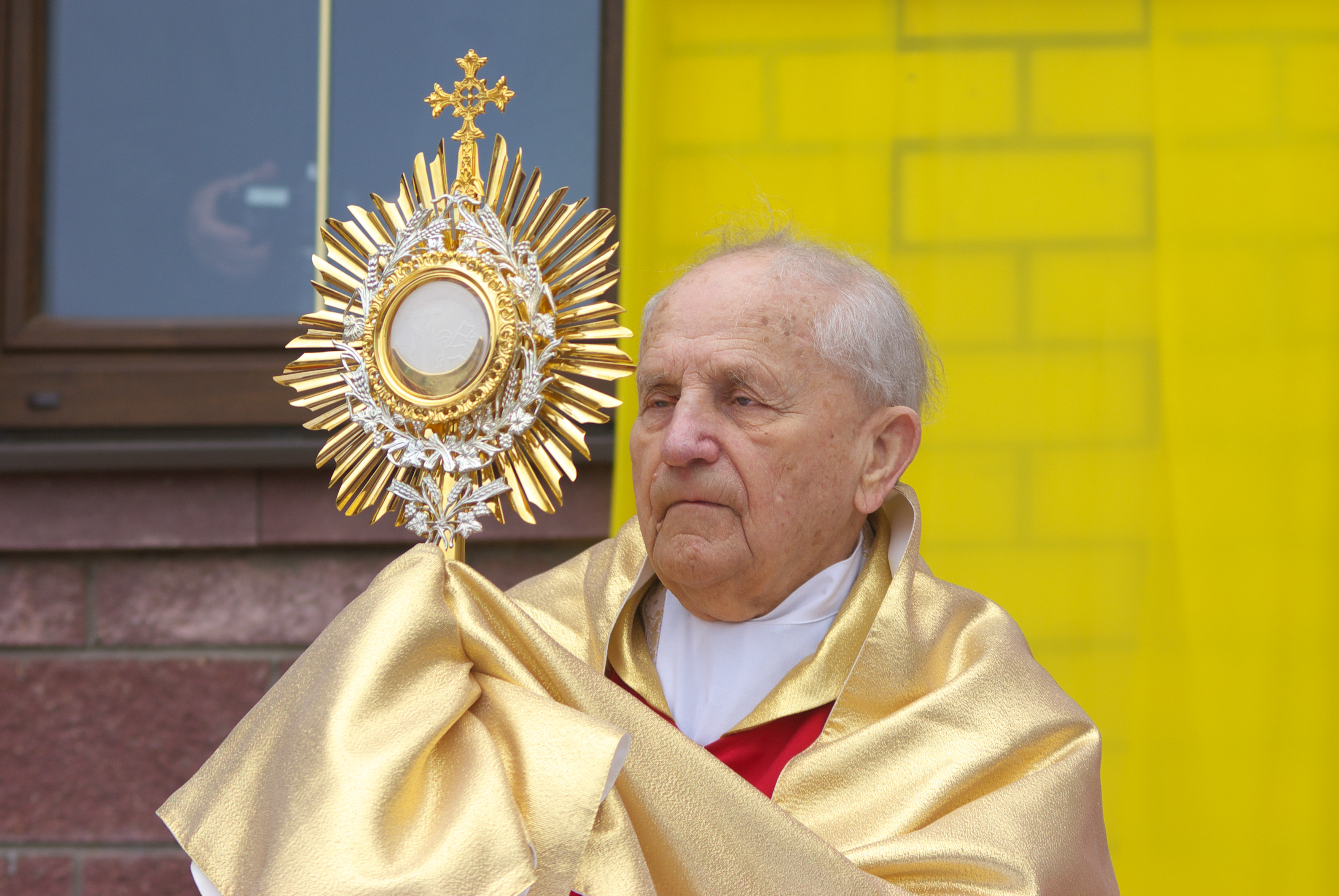 Cardinal Kazimier Sviontak